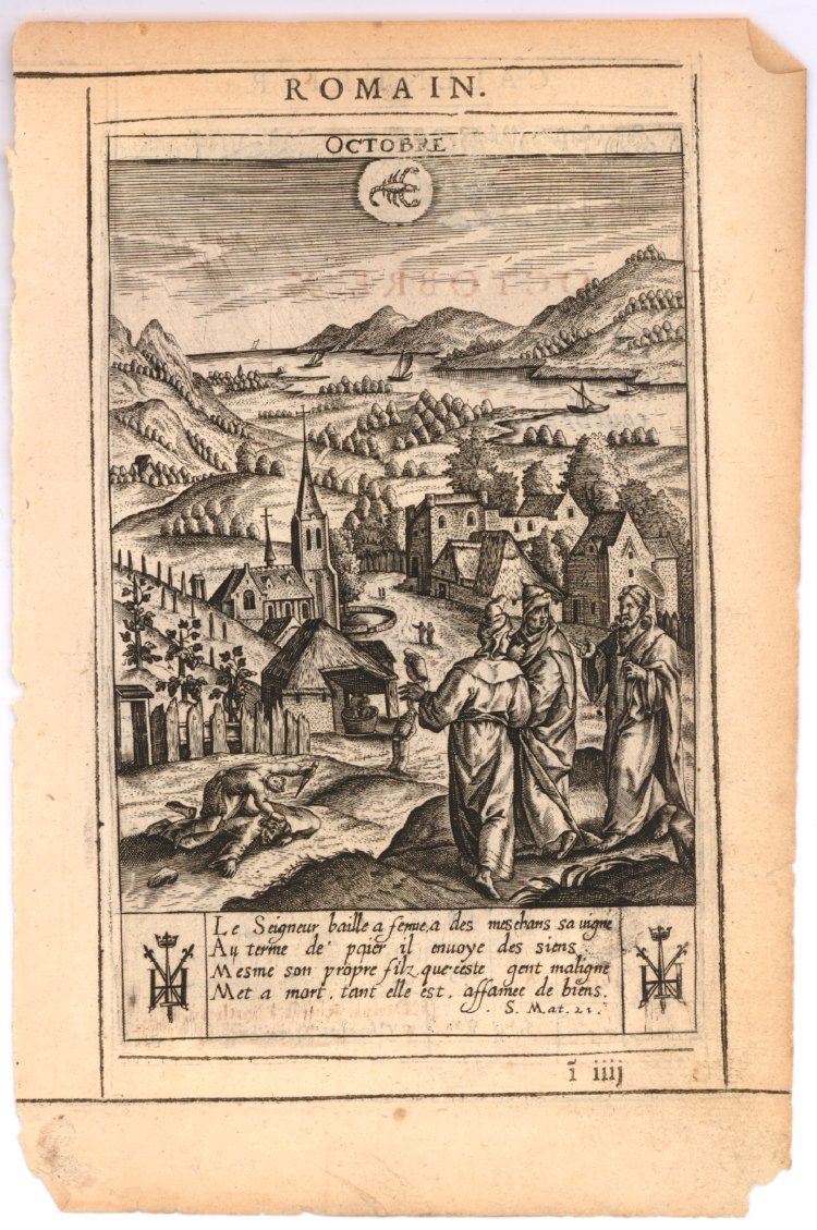 October. Landscape with Jesus Christ addressing two priests in lower right, one of the husbandmen killing a servant at left (parable of the wicked husbandmen), a village and a river in background; zodiacal sign of Scorpio at top centre; letterpress in black and red ink above impression and on verso. Plate 10 in a series of engravings, The Twelve Months, showing the months with scenes from the New Testament and French text underneath. Height: 137 millimetres Width: 89 millimetres